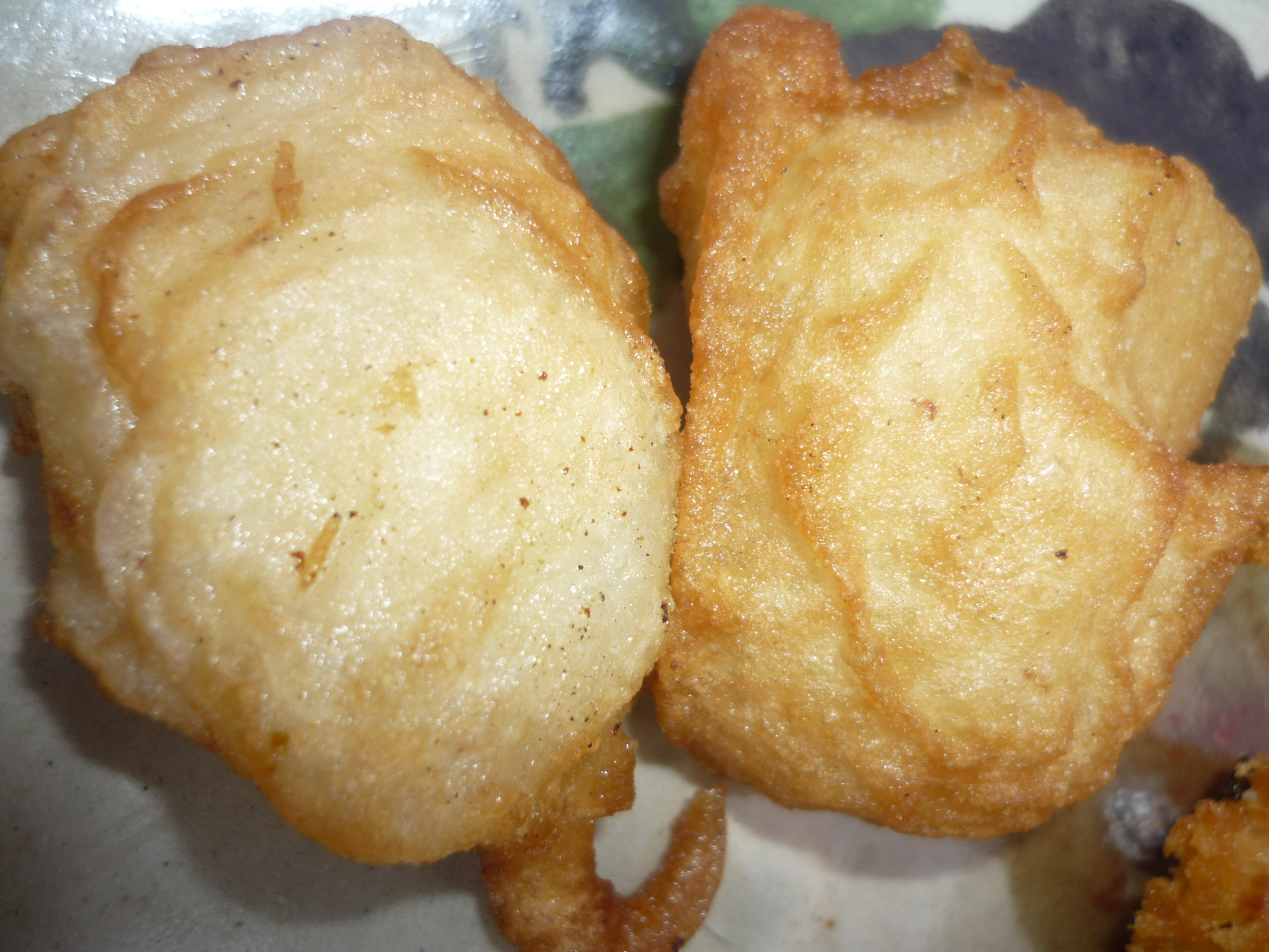 Banana tempura in Vietnam